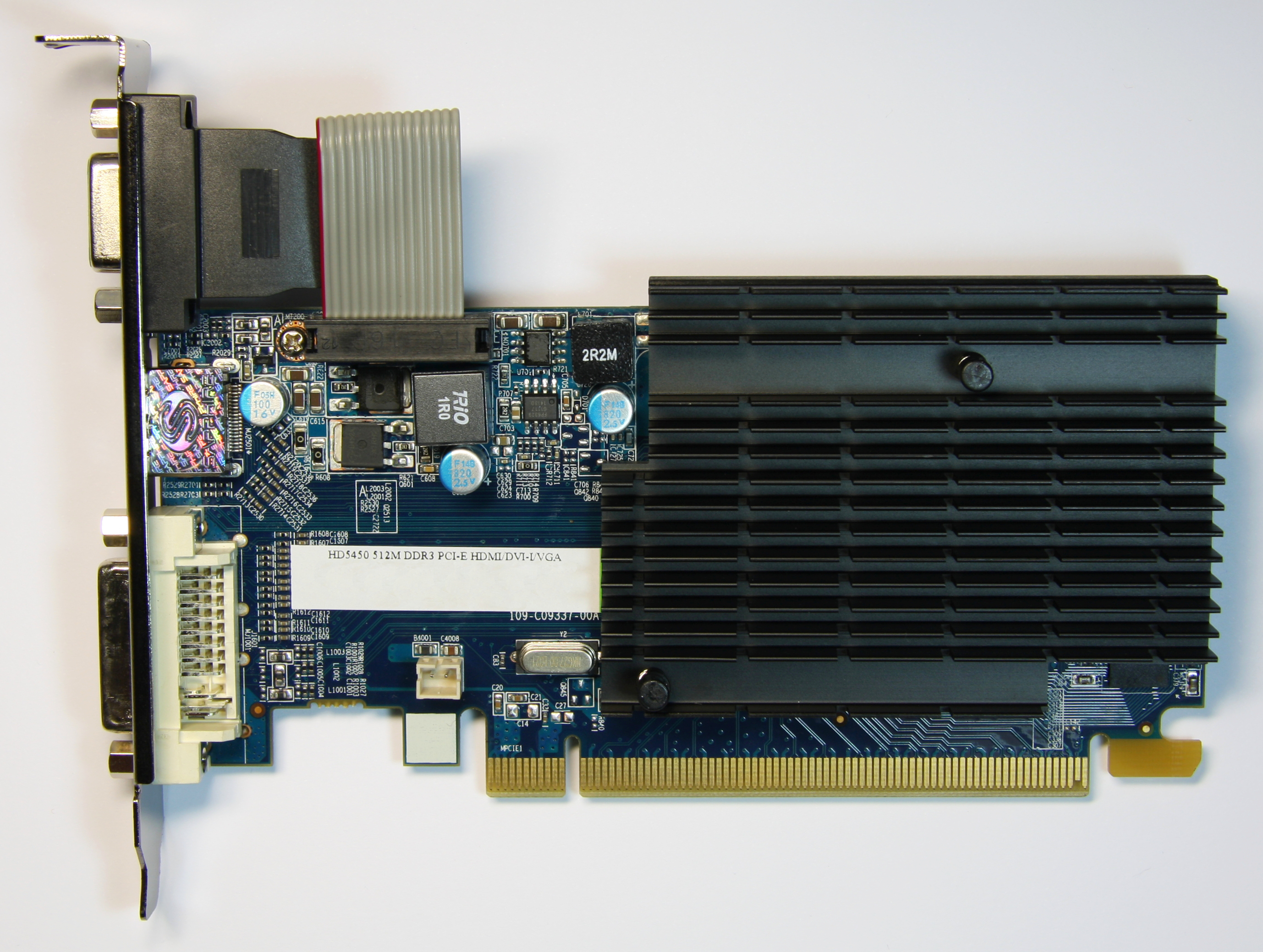 The front side of a Sapphire Radeon HD 5450 (see also Evergreen (GPU family))